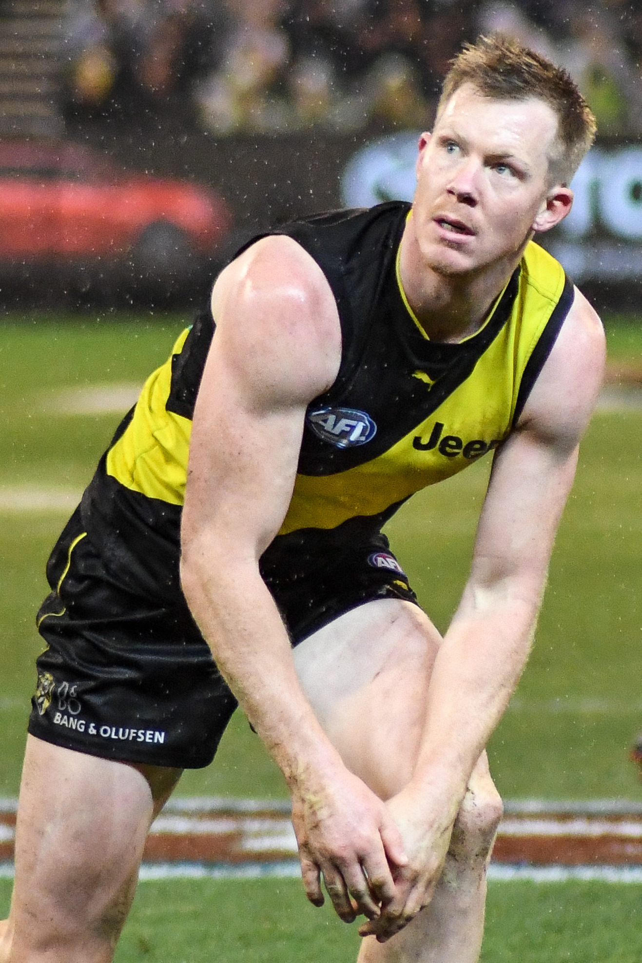 Jack Riewoldt of Richmond during the 2018 AFL round 20 match between Richmond and Geelong at the Melbourne Cricket Ground on Friday, 3 August 2018 in Melbourne, Victoria.